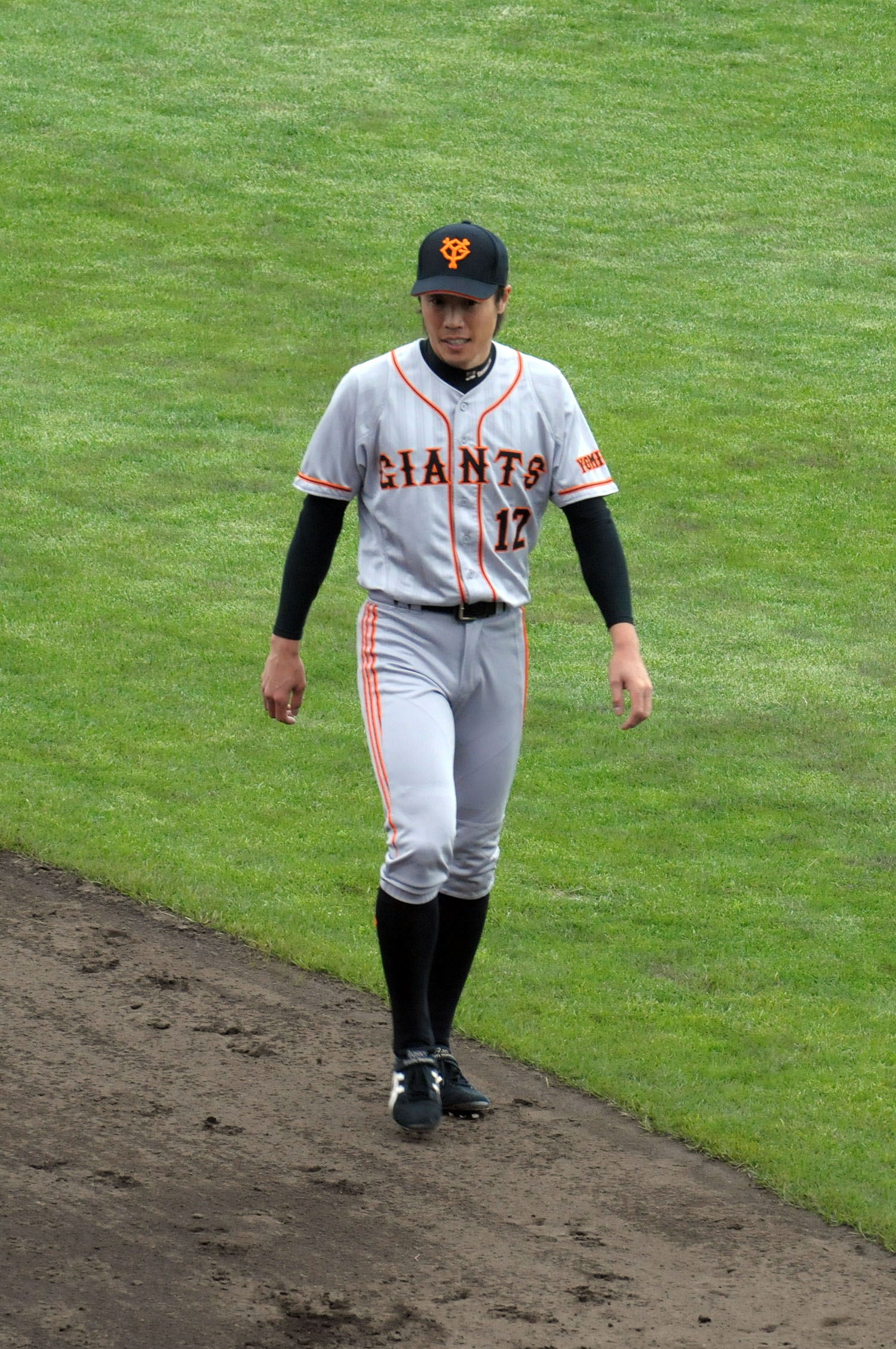 Takahiro Suzuki, outfielder of the Yomiuri Giants, at Akita Prefectural Baseball Stadium.